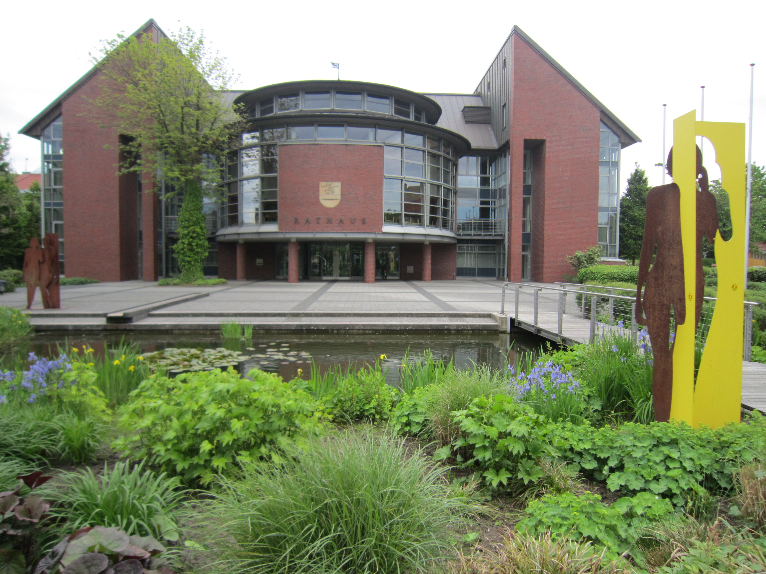 Town hall of Cloppenburg with sculptures "Jede Menge Leute" by Werner Berges